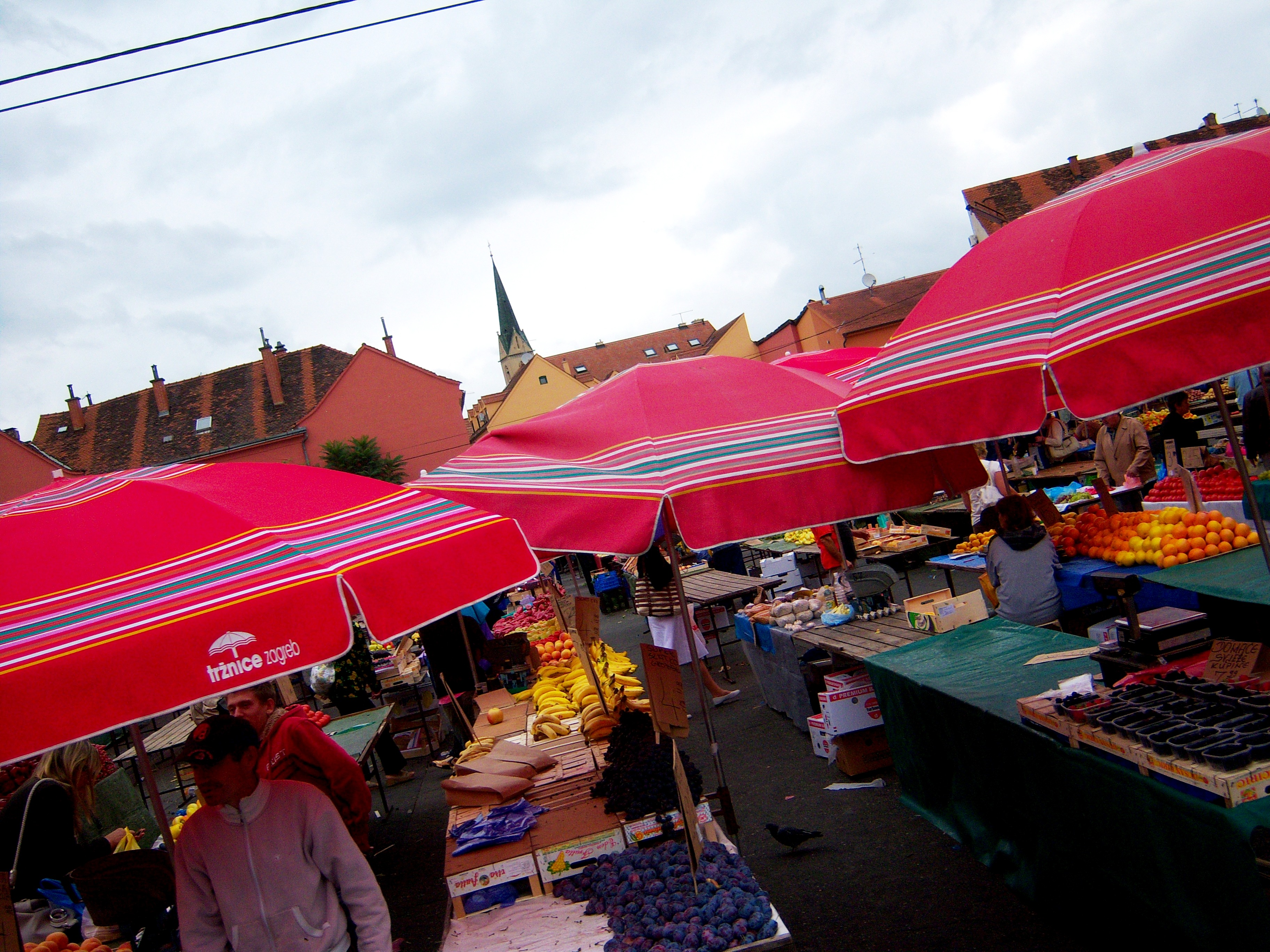 Zagreb market